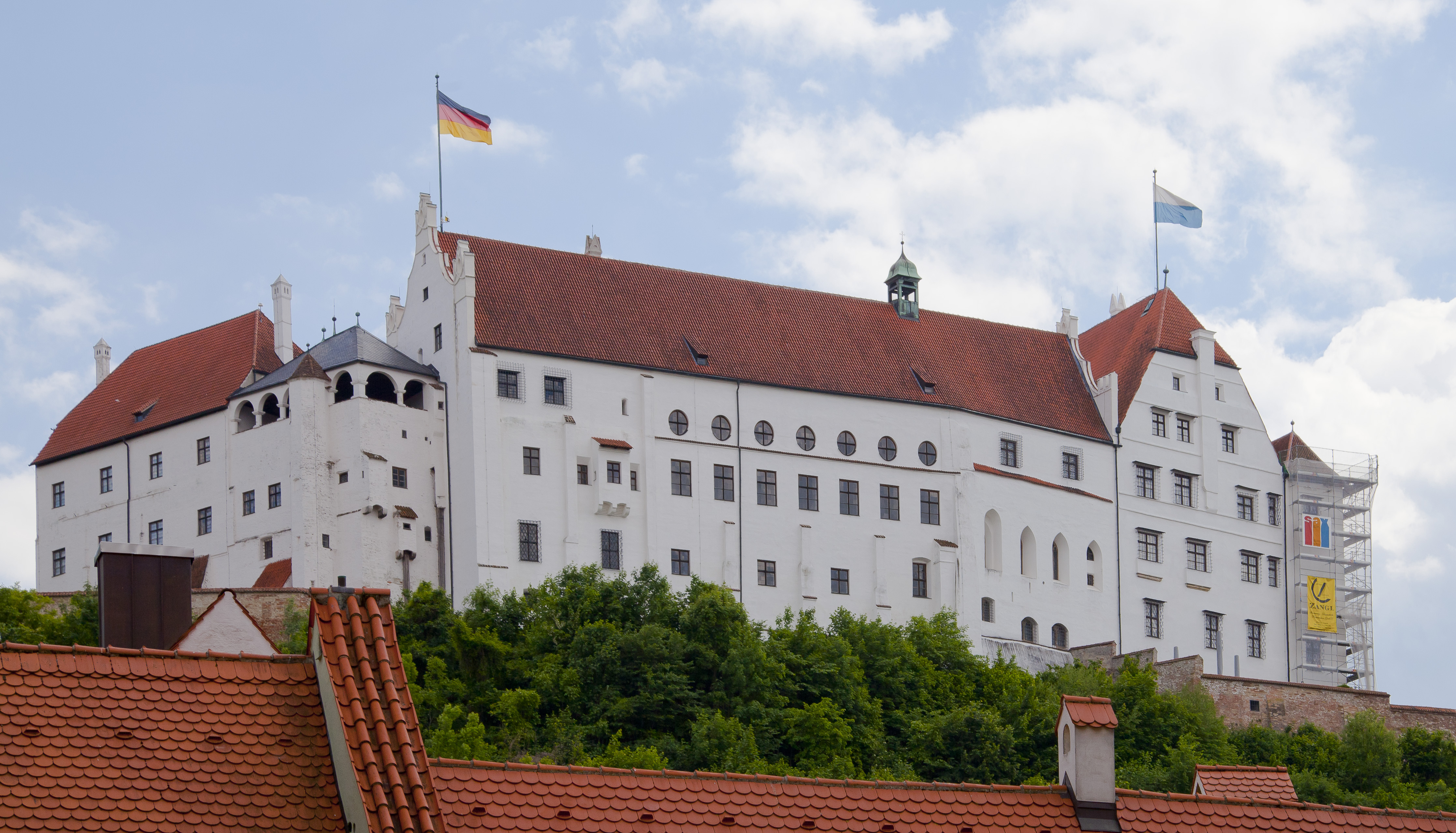 Trausnitz castle, Landshut, Germany